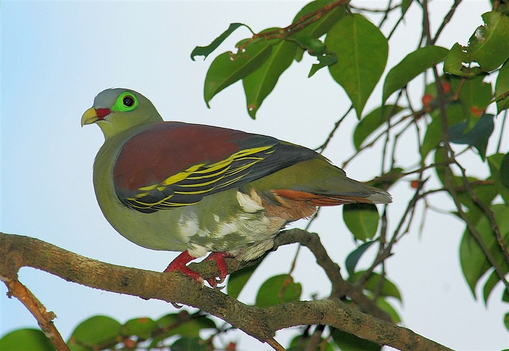 Location: Upper Seletar Reservoir